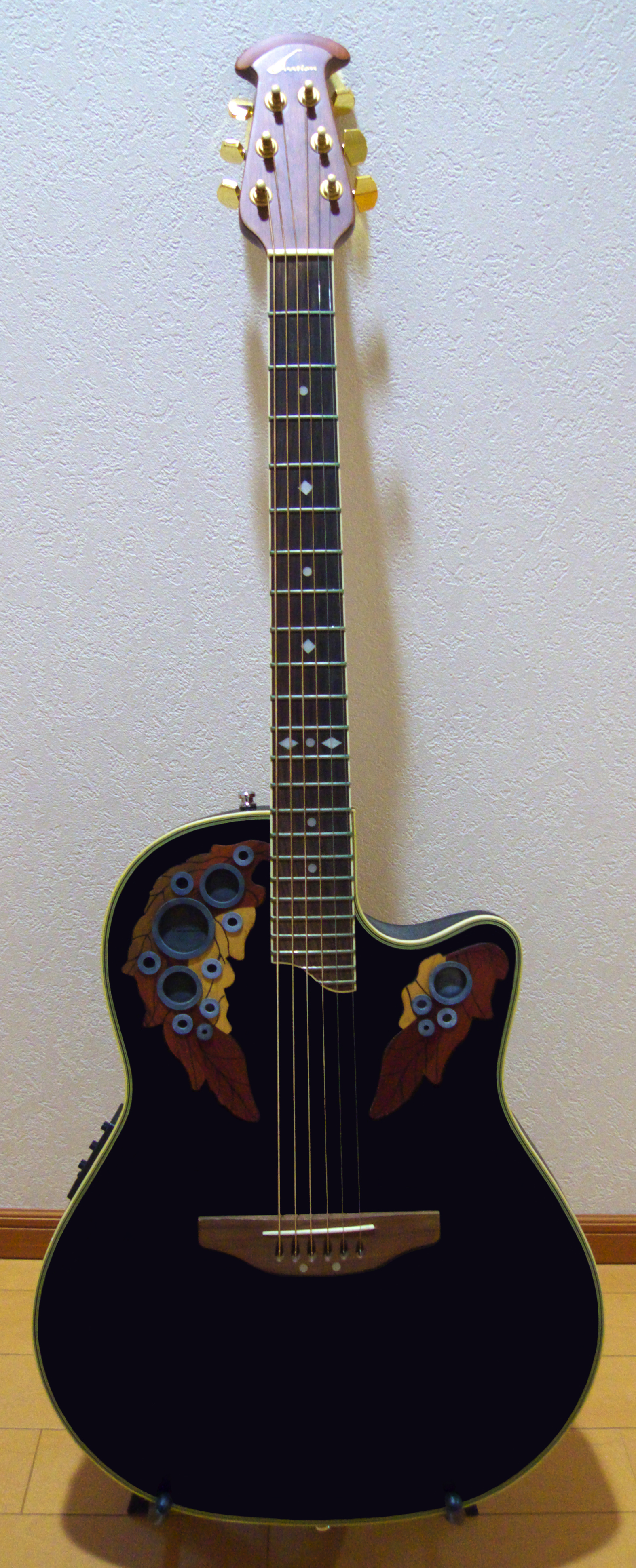 An Ovation acoustic guitar, model unknown, with optional sound hole covers attached.